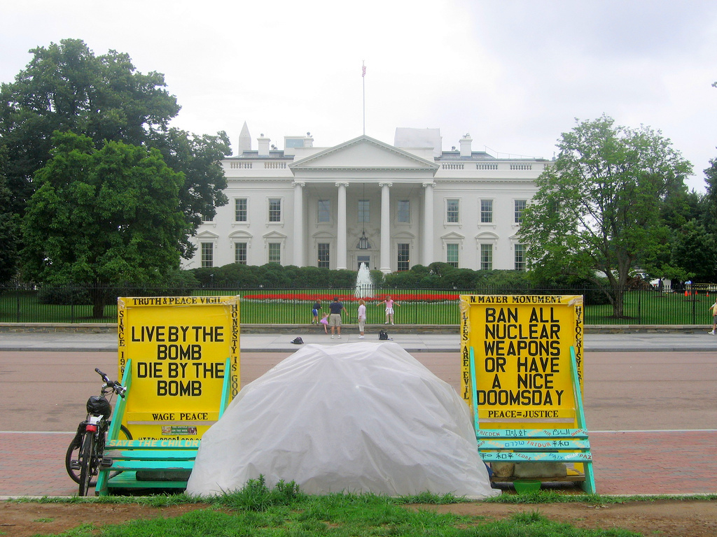 White House Peace Vigil, Lafayette Square, Washington, D.C. The peace vigil was started by Thomas and Concepcion Picciotto in 1981.